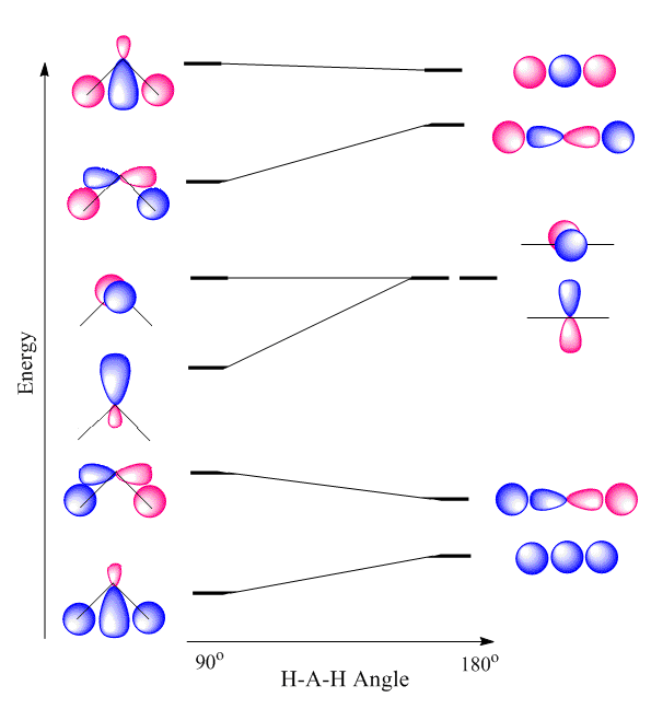 Original image rotated coordinates within so was confusing. I corrected the image for a consistent coordinate system.